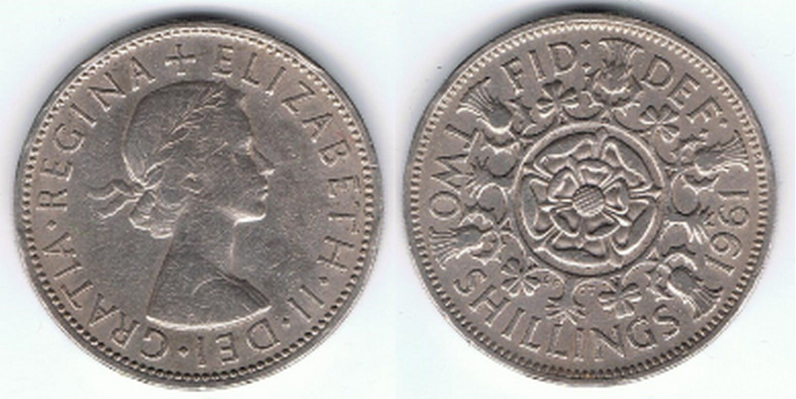 Two shillings (British coin)